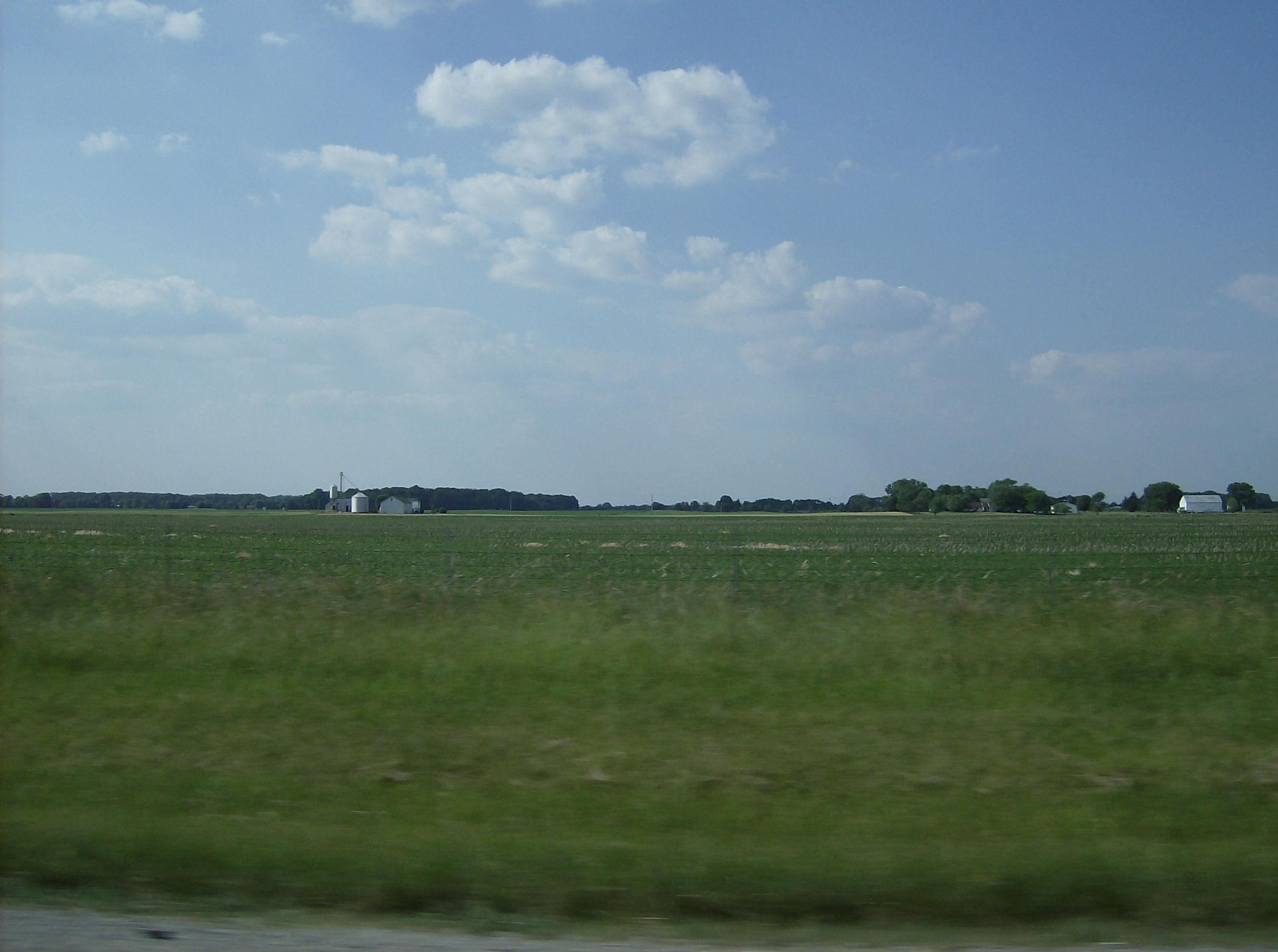 View of farmland in southwestern Clay Township, Montgomery County, Ohio, United States. Picture taken looking northward from Interstate 70.